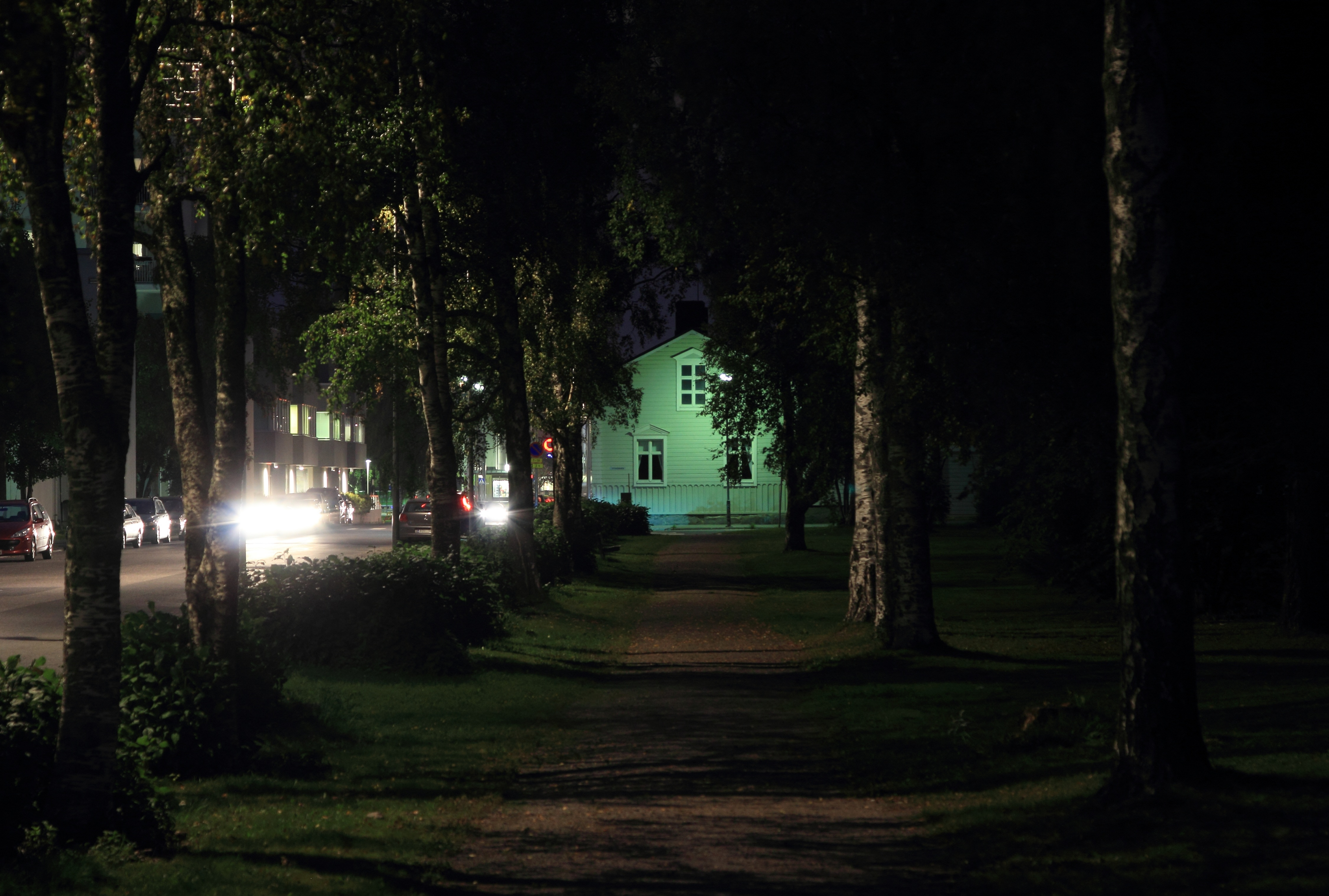 The Meripuisto park at night in Kemi.